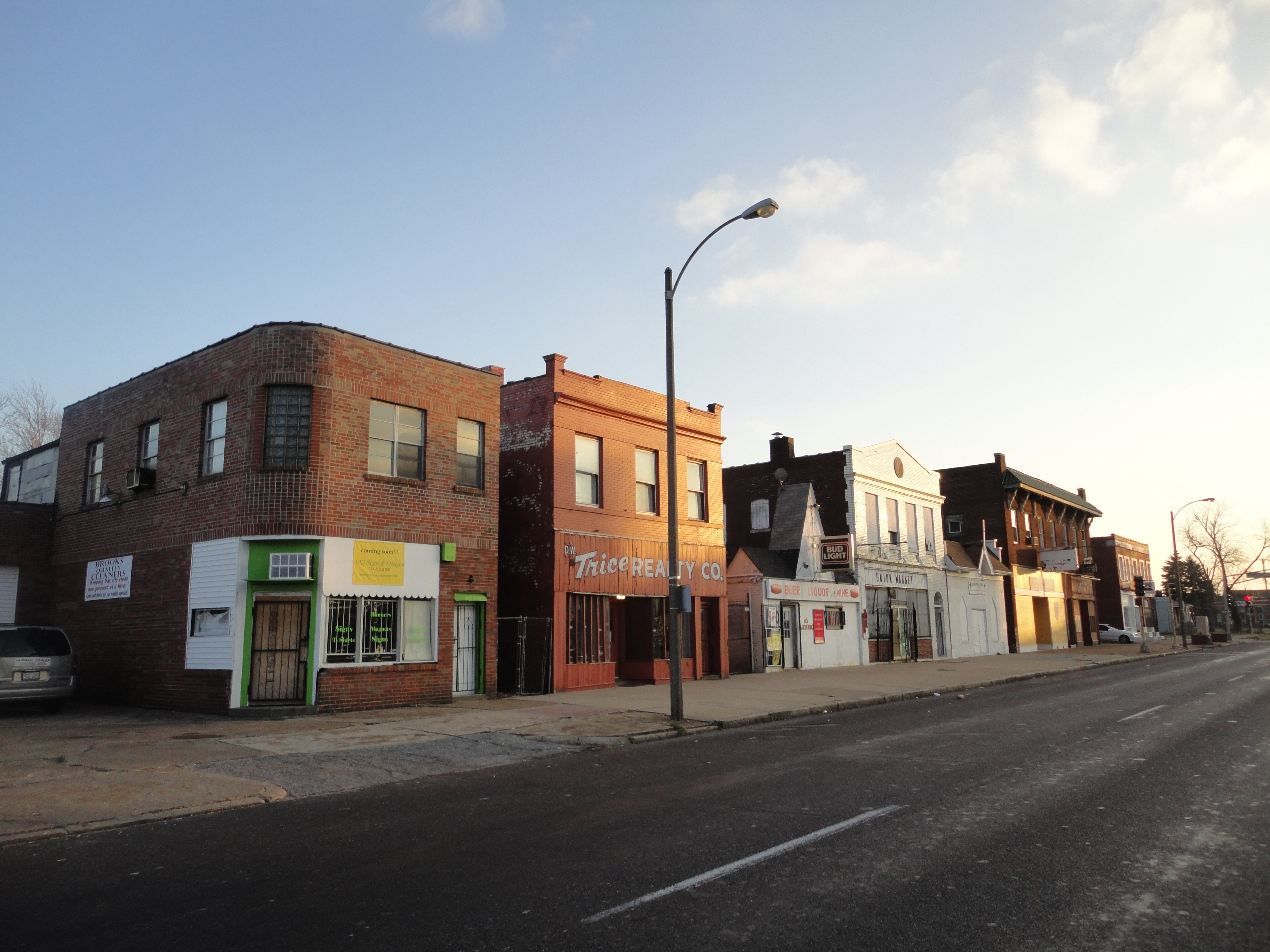 Union Blvd